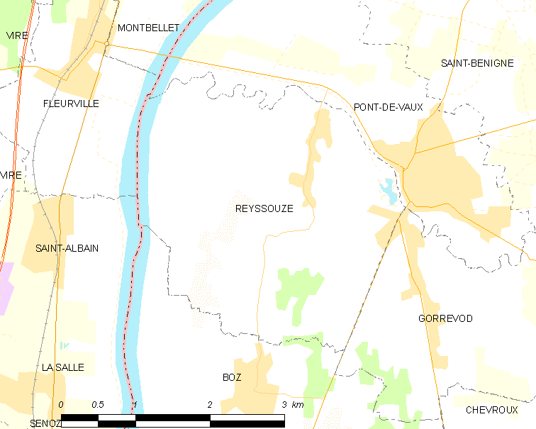 Map of French commune: Reyssouze Map commune FR insee code 01323.png